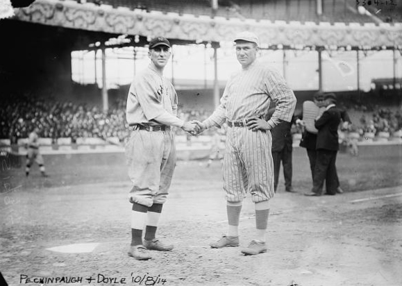 Bain News Service,, publisher. [Roger Peckinpaugh, New York AL and Larry Doyle, New York NL (baseball)] [1914] 1 negative : glass ; 5 x 7 in. or smaller. Notes: Original data provided by the Bain News Service on the negatives or caption cards: Peckinpaugh & Doyle, 10/8/14. Corrected title and date based on research by the Pictorial History Committee, Society for American Baseball Research, 2006. Forms part of: George Grantham Bain Collection (Library of Congress). Format: Glass negatives. Repository: Library of Congress, Prints and Photographs Division, Washington, D.C. 20540 USA, General information about the Bain Collection is available at Persistent URL: Call Number: LC-B2- 3304-12